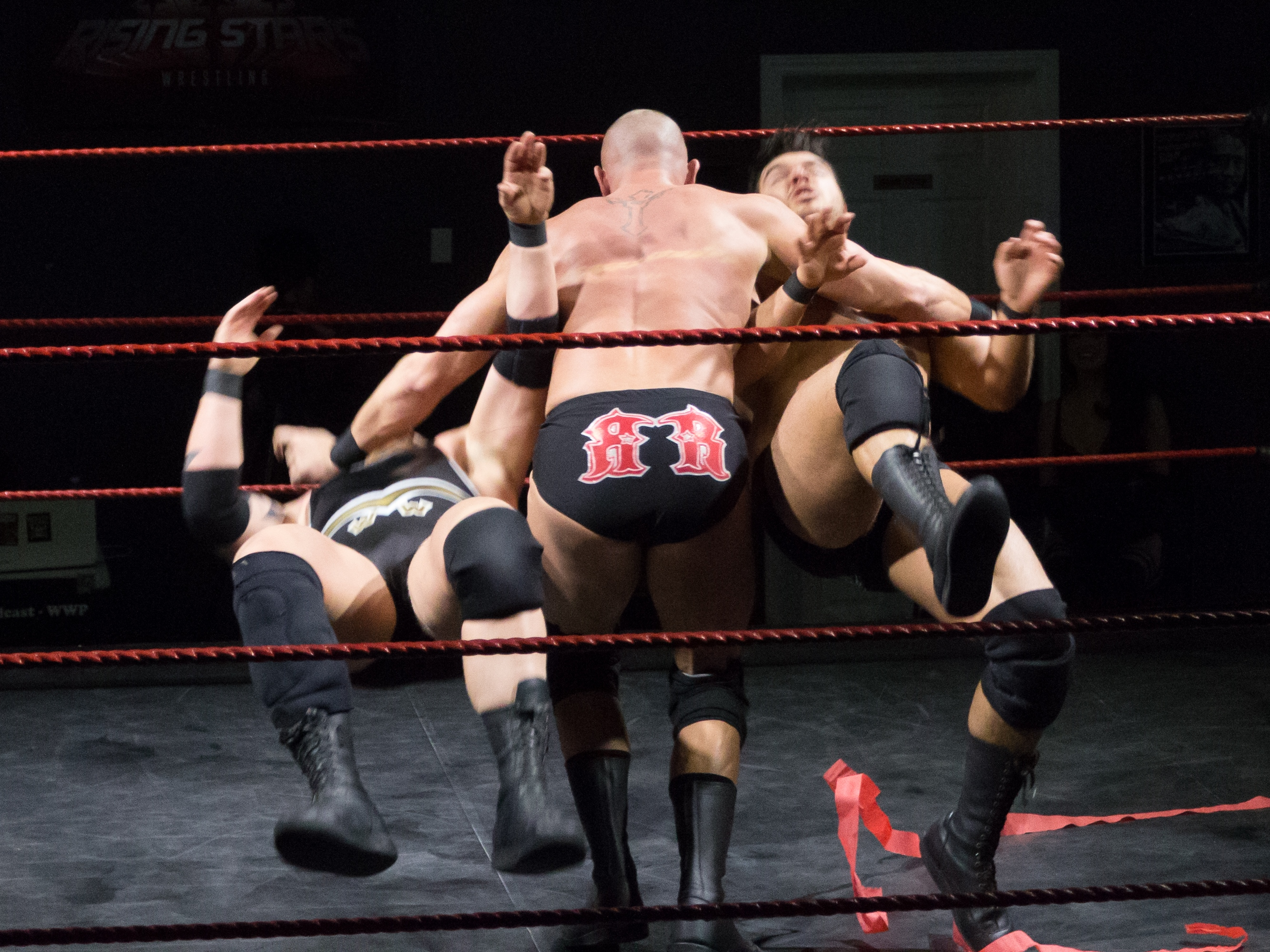 Wrestler Randy Reigns (center) delivering a double-clothesline to Josh Alexander (left) and Ethan Page at Destiny Wrestling's debut show in Mississauga, ON